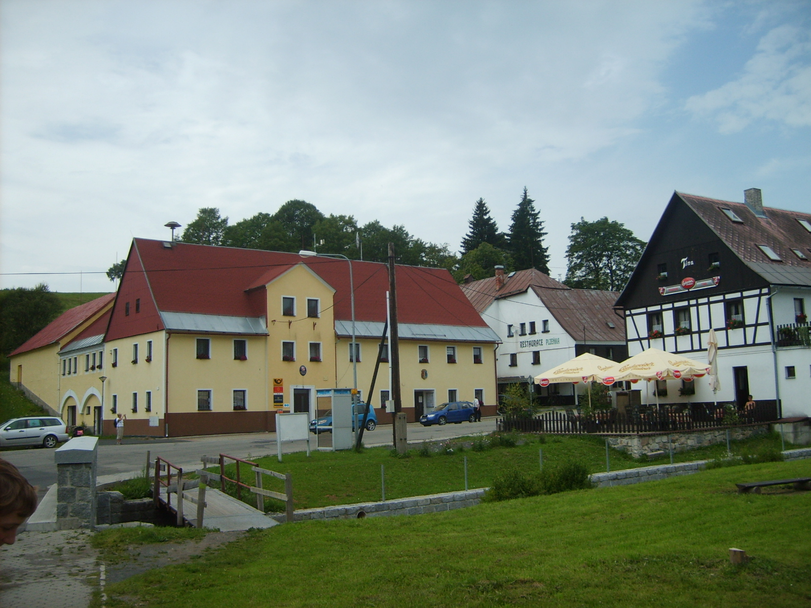 Municipal authority and post building in Pernink.